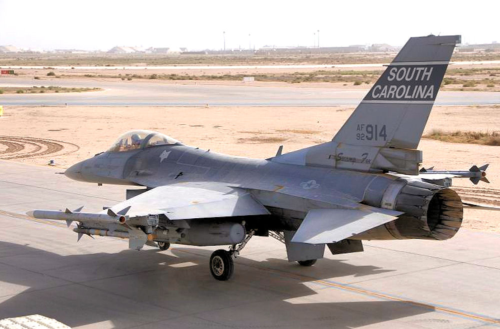 Capt. David Way, a fighter pilot with the 157th Expeditionary Fighter Squadron, prepares to take off in F-16C block 52 #92-3914 for an alert mission on June 24th, 2010 at Balad AB. [USAF photo by TSgt. Caycee Cook]